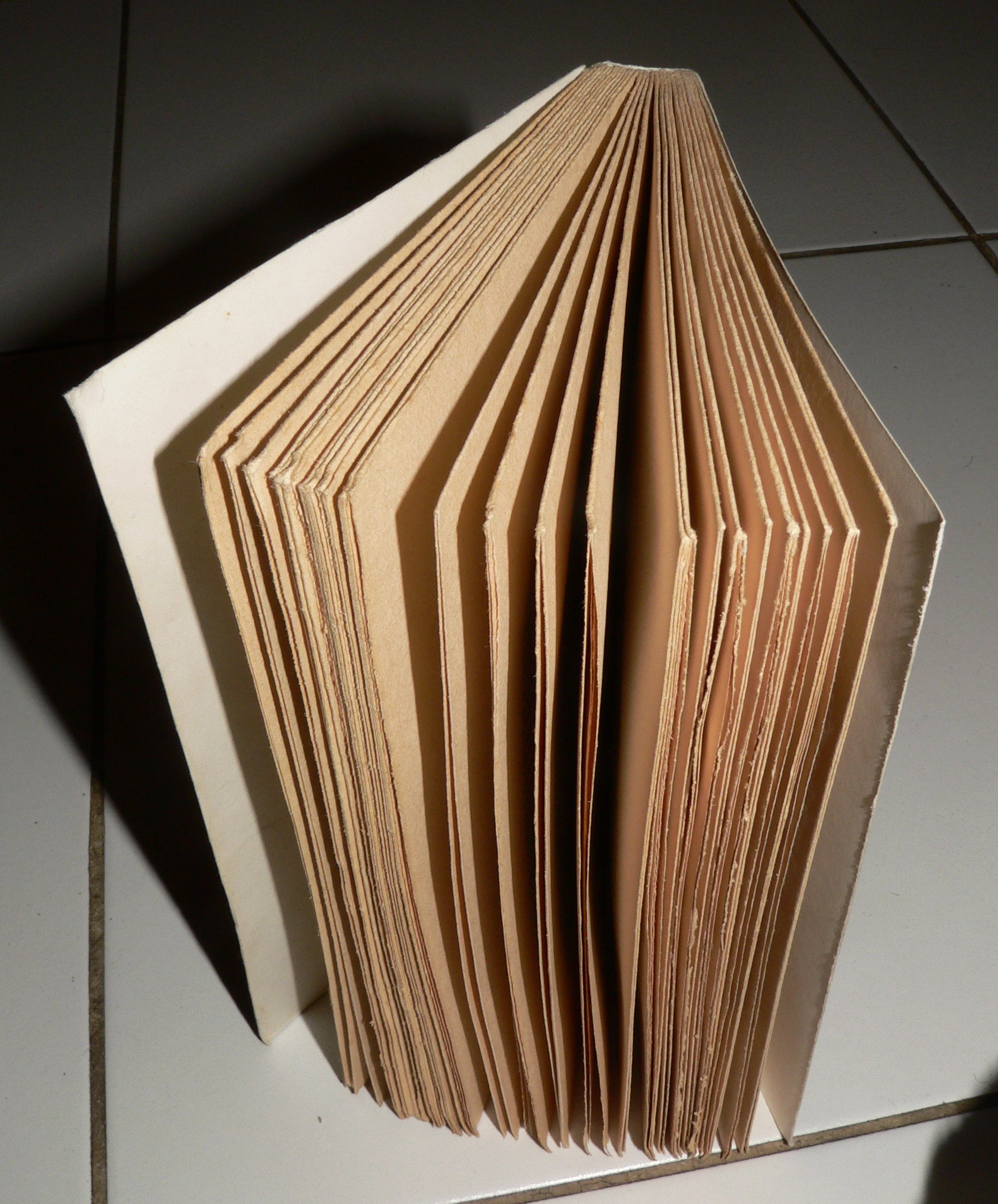 an uncut book (notice that the pages are still jointed; in order to read this book one should separate the pages using a paper cutter)